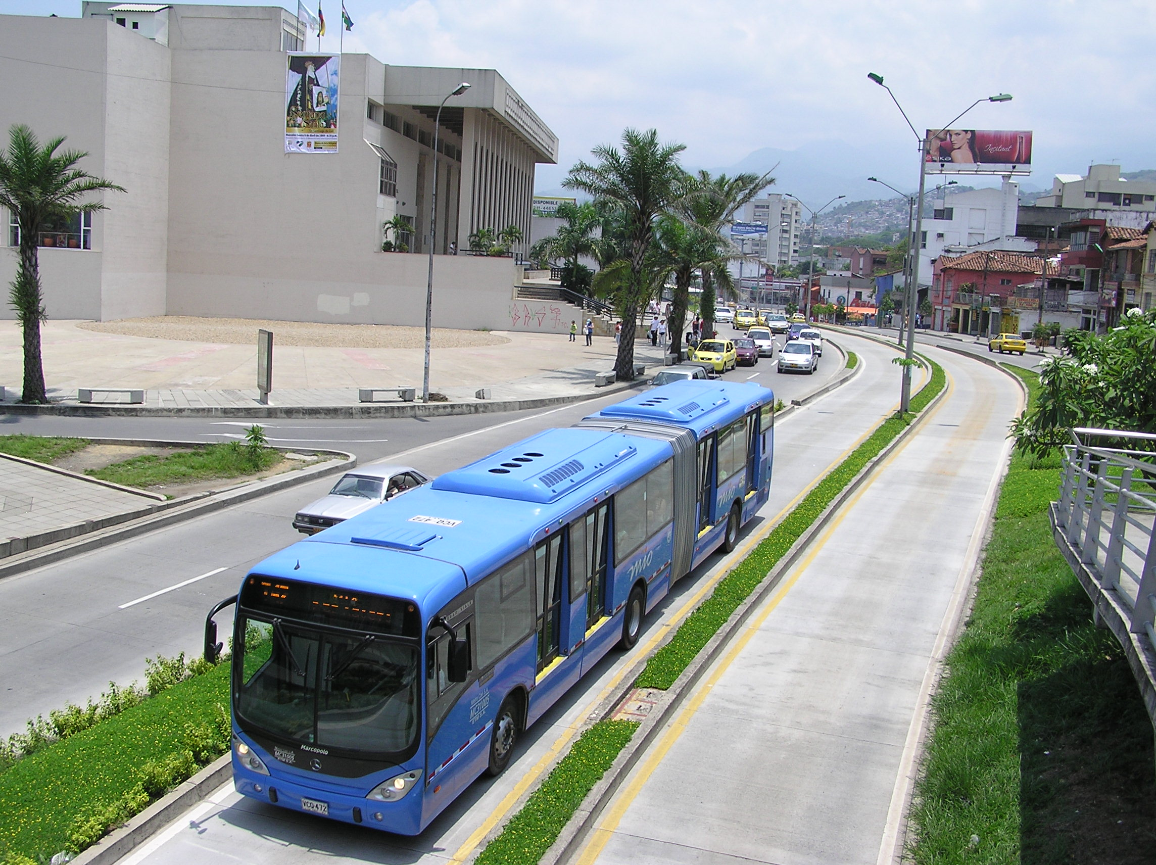 MIO, masivo integrado de Occidente, the public transportation system of Cali Colombia